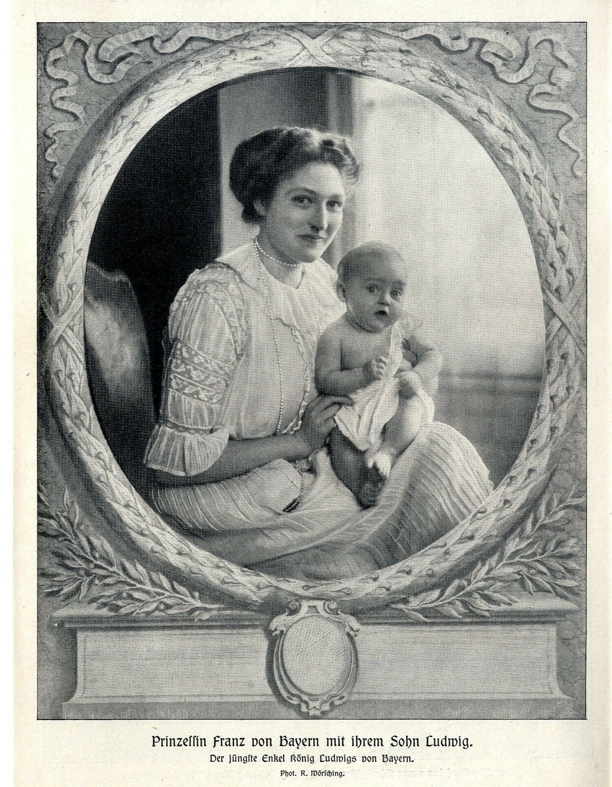 Princess Isabella Antonie of Croÿ with her son Prince Ludwig of Bavaria (1913–2008), 1914